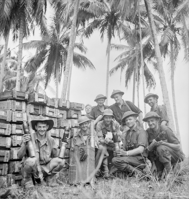 1942-12-11. PAPUA - GONA. JAPANESE AMMUNITION CAPTURED WHEN THE AUSTRALIANS ATTACKED THE EASTERN PORTION OF GONA VILLAGE. (NEGATIVE BY G. SILK).